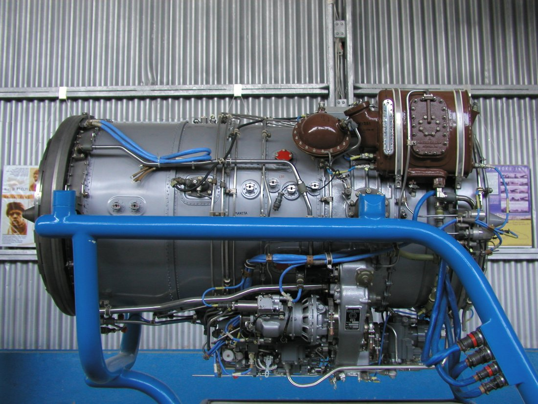 Lotarev (ZMKB Progress) DV-2 turbofan engine